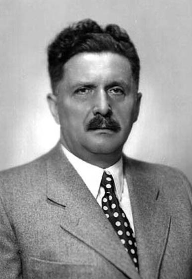 Josef Černý (1885-1971). Czech politician.